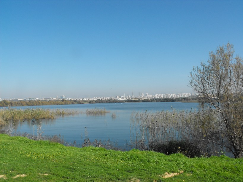 The lake in Risho Lezion. A pastoral place for family entertainment.